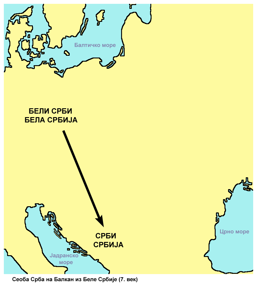 Migration of Serbs to the Balkans from White Serbia (7th century).